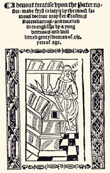 First page of Margaret Roper's translation of Erasmus' Precatio Dominica.